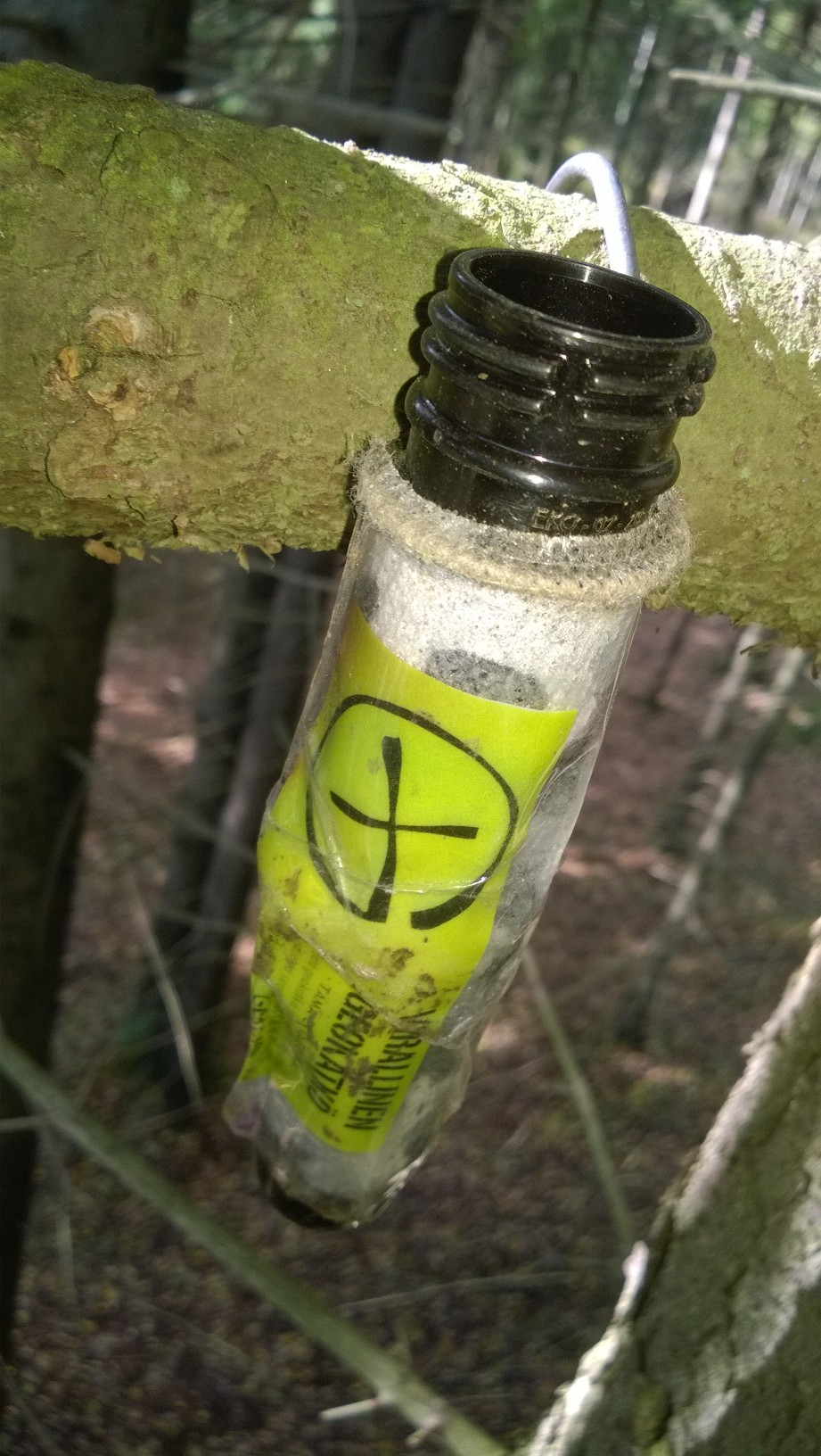 Geocache somewhere Finland